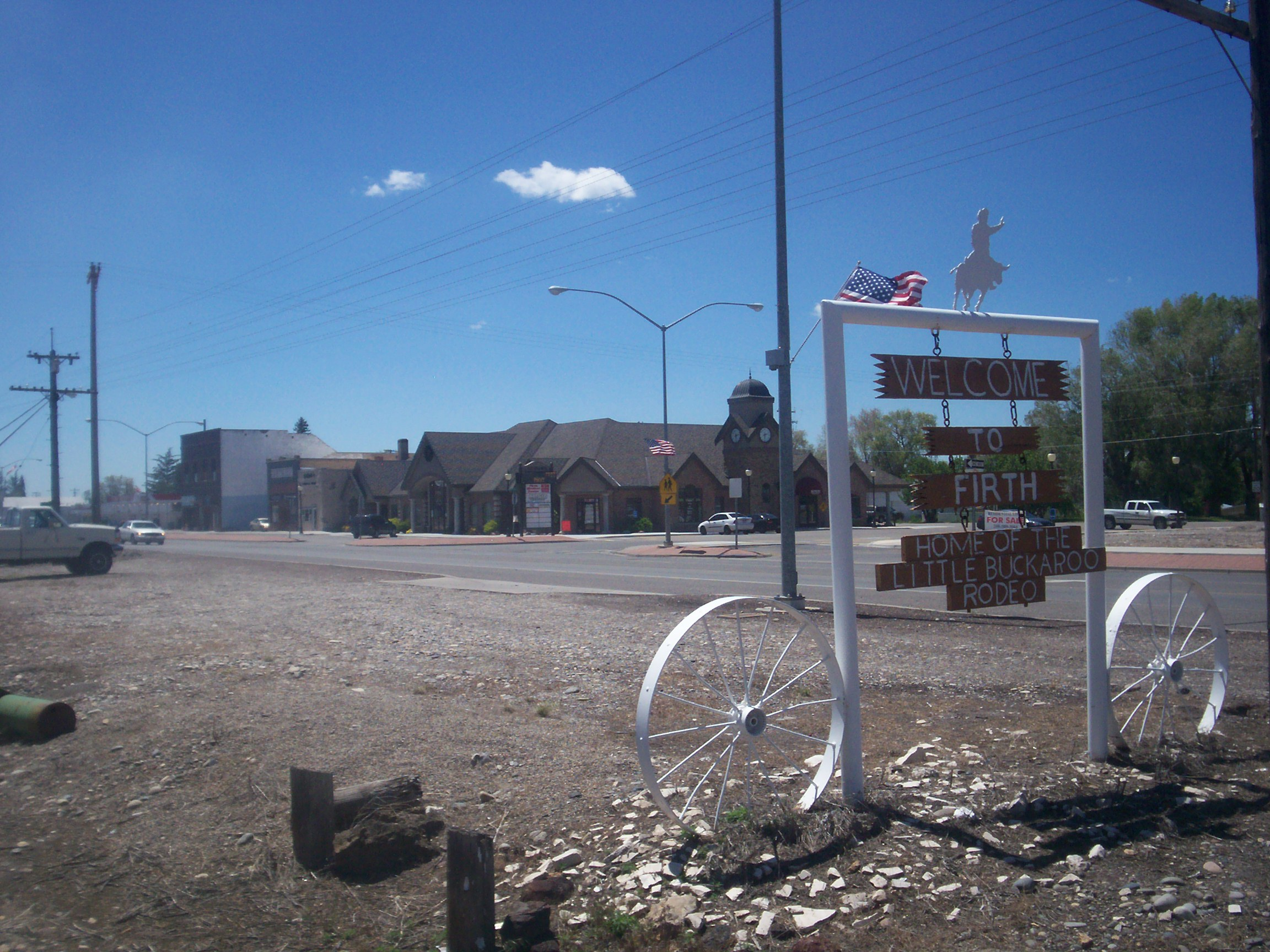 The welcome sign in Firth Idaho. The sign advertises the Little Buckaroo Rodeo, which is a rodeo for children.